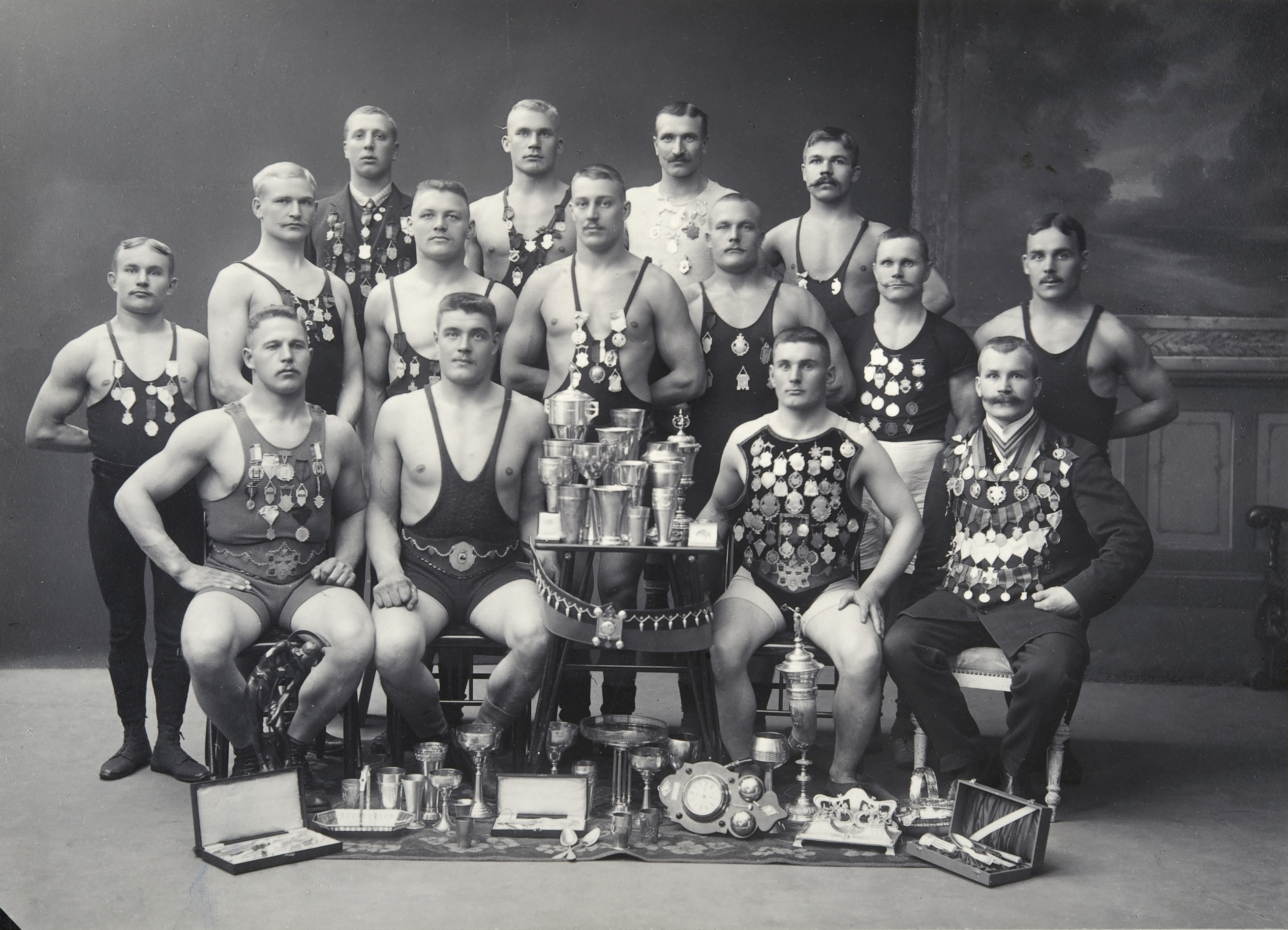 Wrestlers of Jyry Helsinki in 1910.